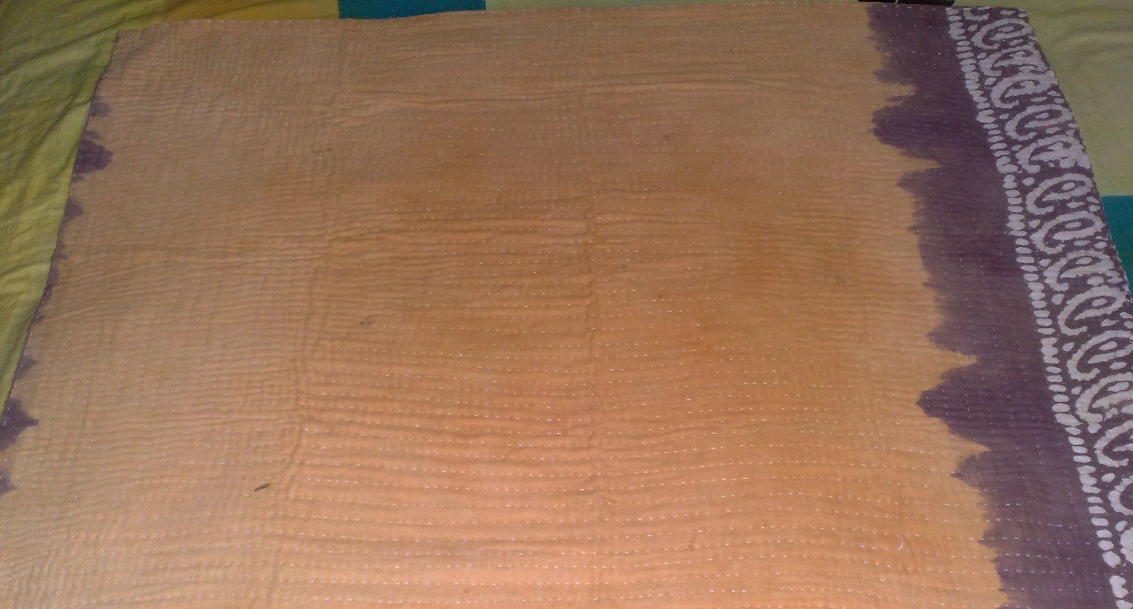 Image of Kantha